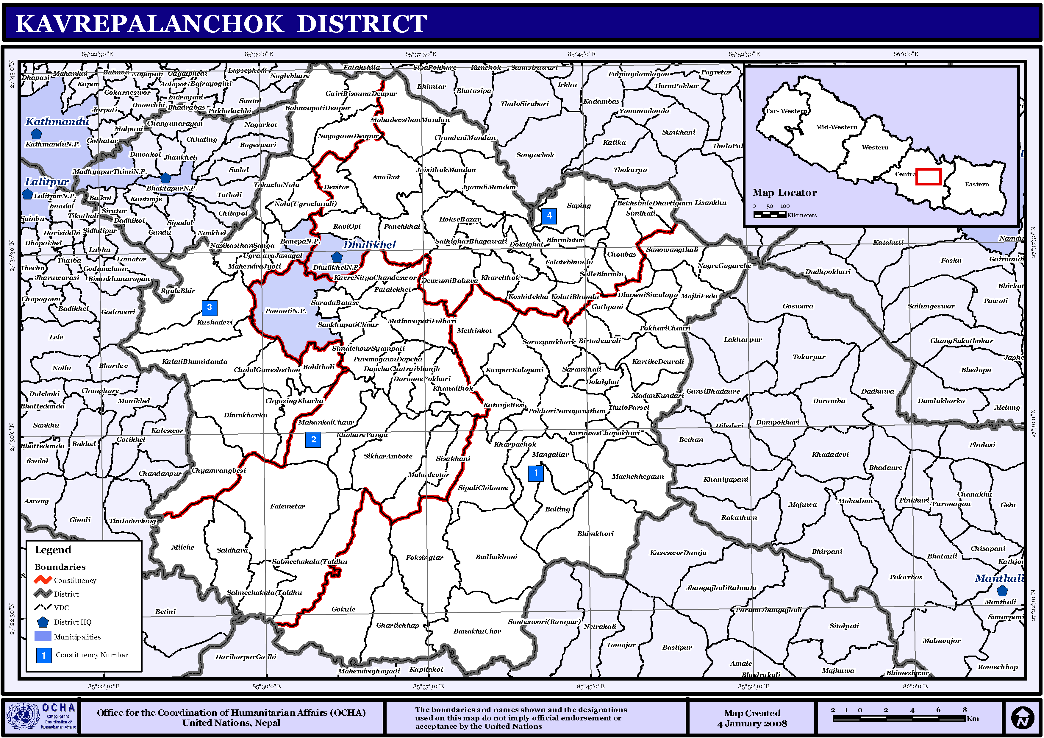 Map displaying Village Development Committees in Kavrepalanchok District, Nepal